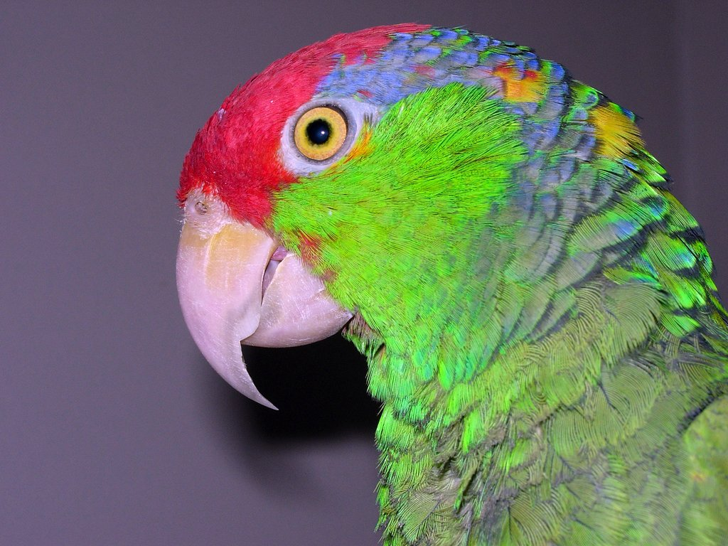 Red-crowned Amazon (Amazona viridigenalis) also known as Green-cheeked Amazon, Red-crowned Parrot, or Mexican Red-headed Parrot.